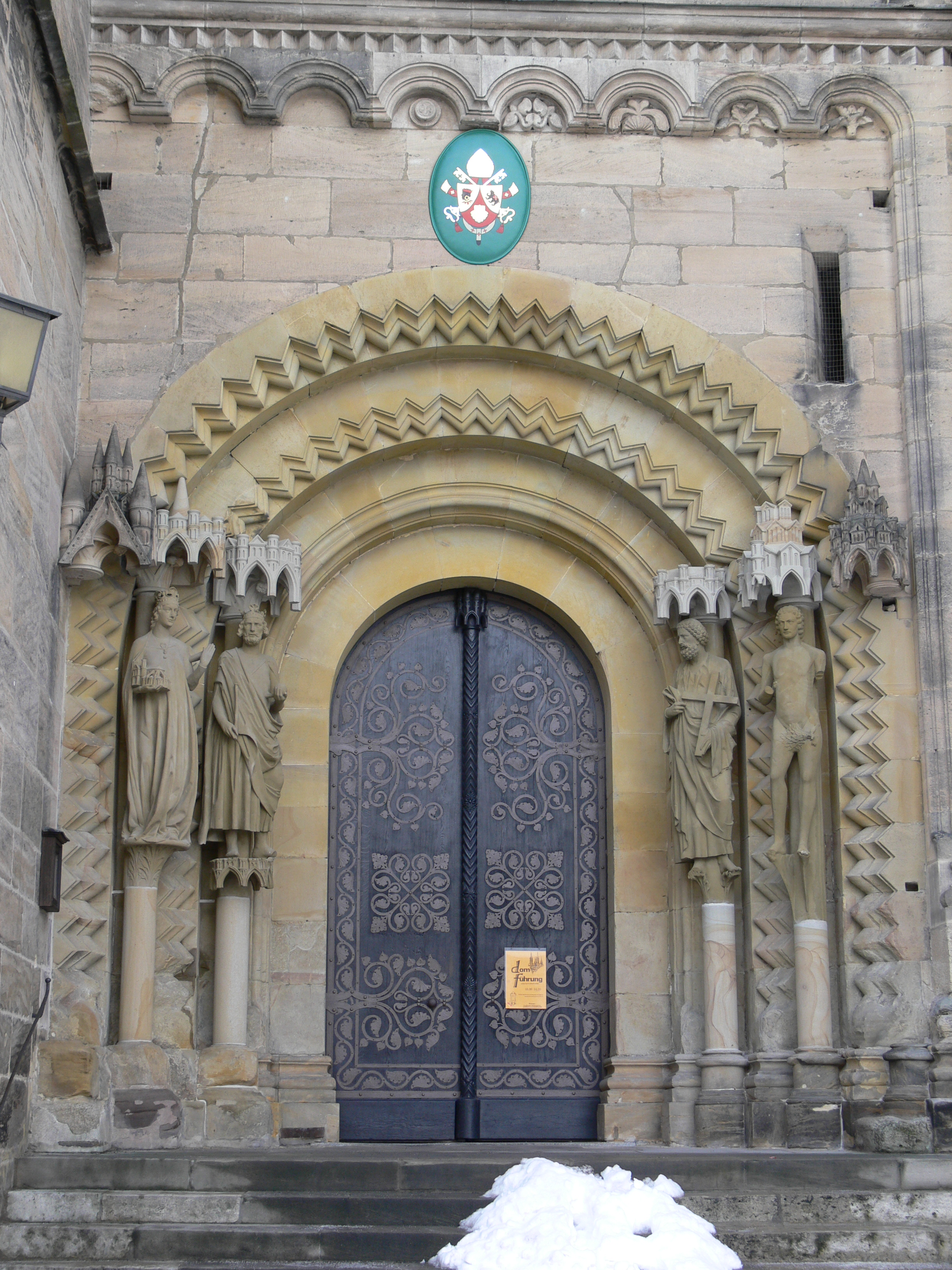 cathedral of Bamberg, Germany